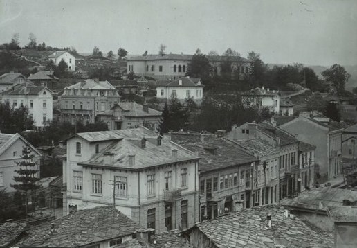 Album with photos of houses, churches, public buildings, industrial enterprises in Gabrovo, Bulgaria.